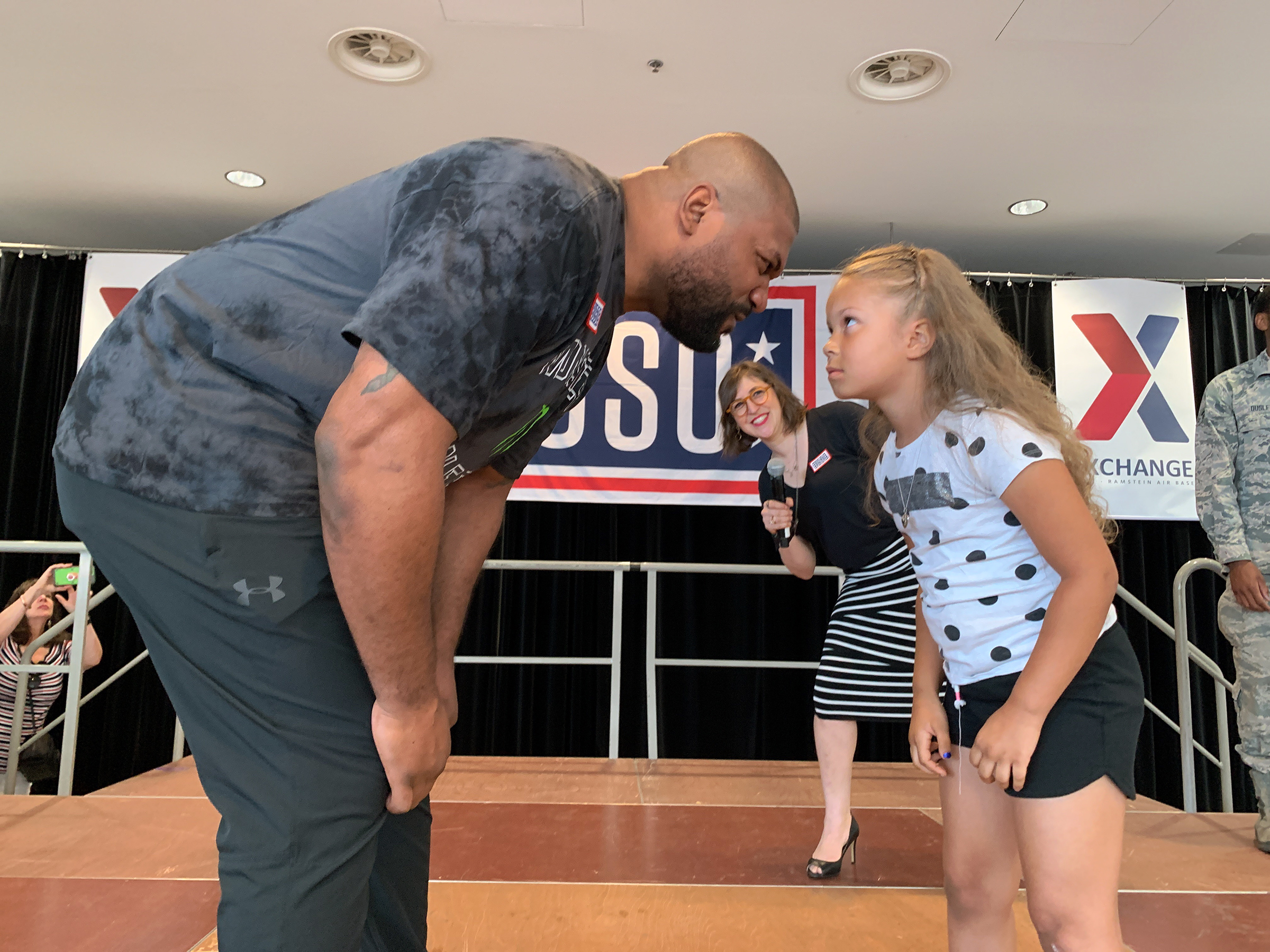 Quinton "Rampage" Jackson conducts a face-off with an audience member during a USO performance, Kaiserslautern Military Community Center, Ramstein Air Base, Ramstein-Miesenbach, Germany, July 3, 2019. Air Force Gen. Joseph Lengyel is hosting a USO Tour, visiting troops in six countries in three combatant commands. This image was acquired using a cellular phone. (U.S. Army National Guard photo by Sgt. 1st Class Jim Greenhill)